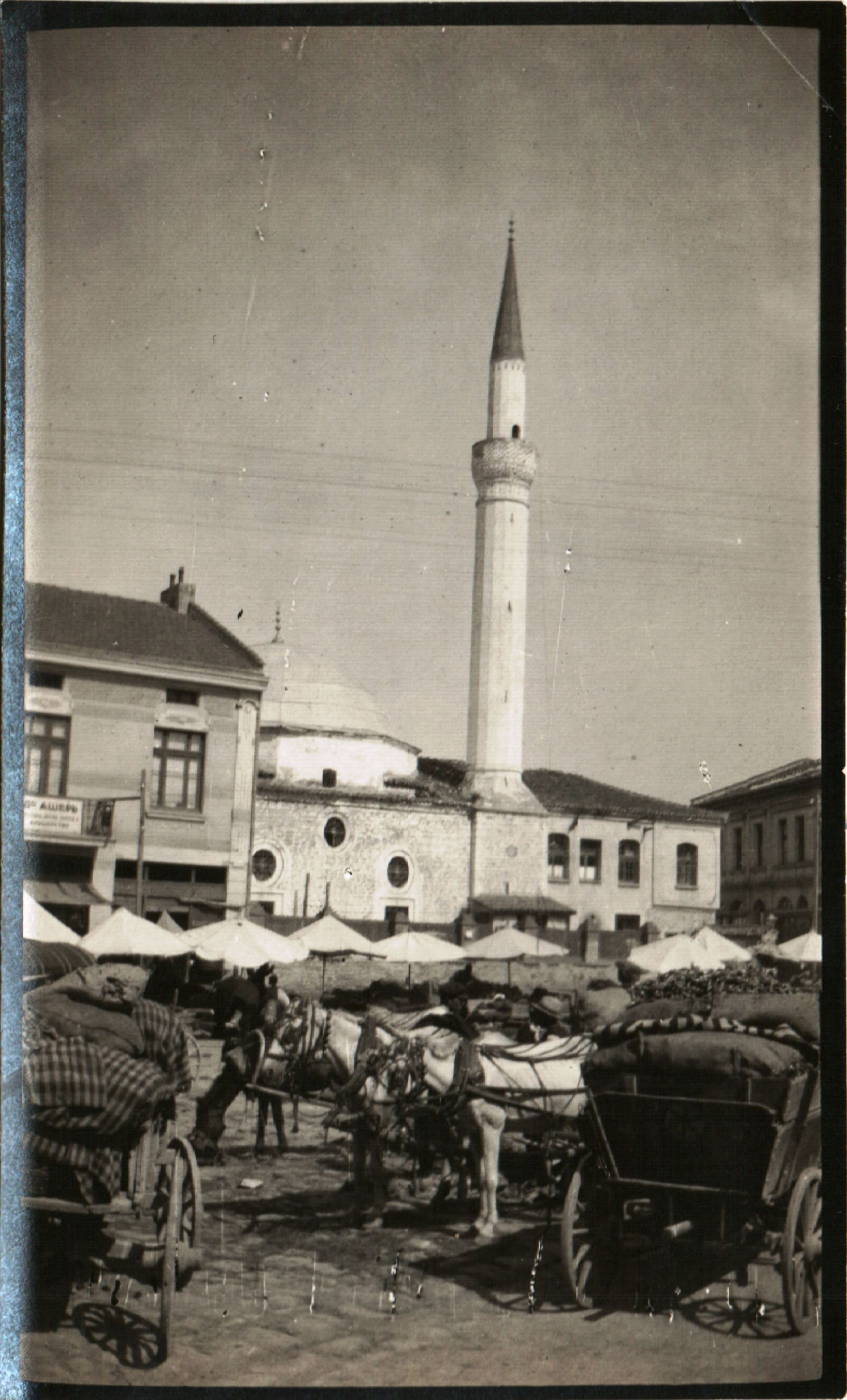 Plovdiv, Bulgaria, 1910 г.